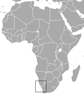 De Winton's Golden Mole (Cryptochloris wintoni) range